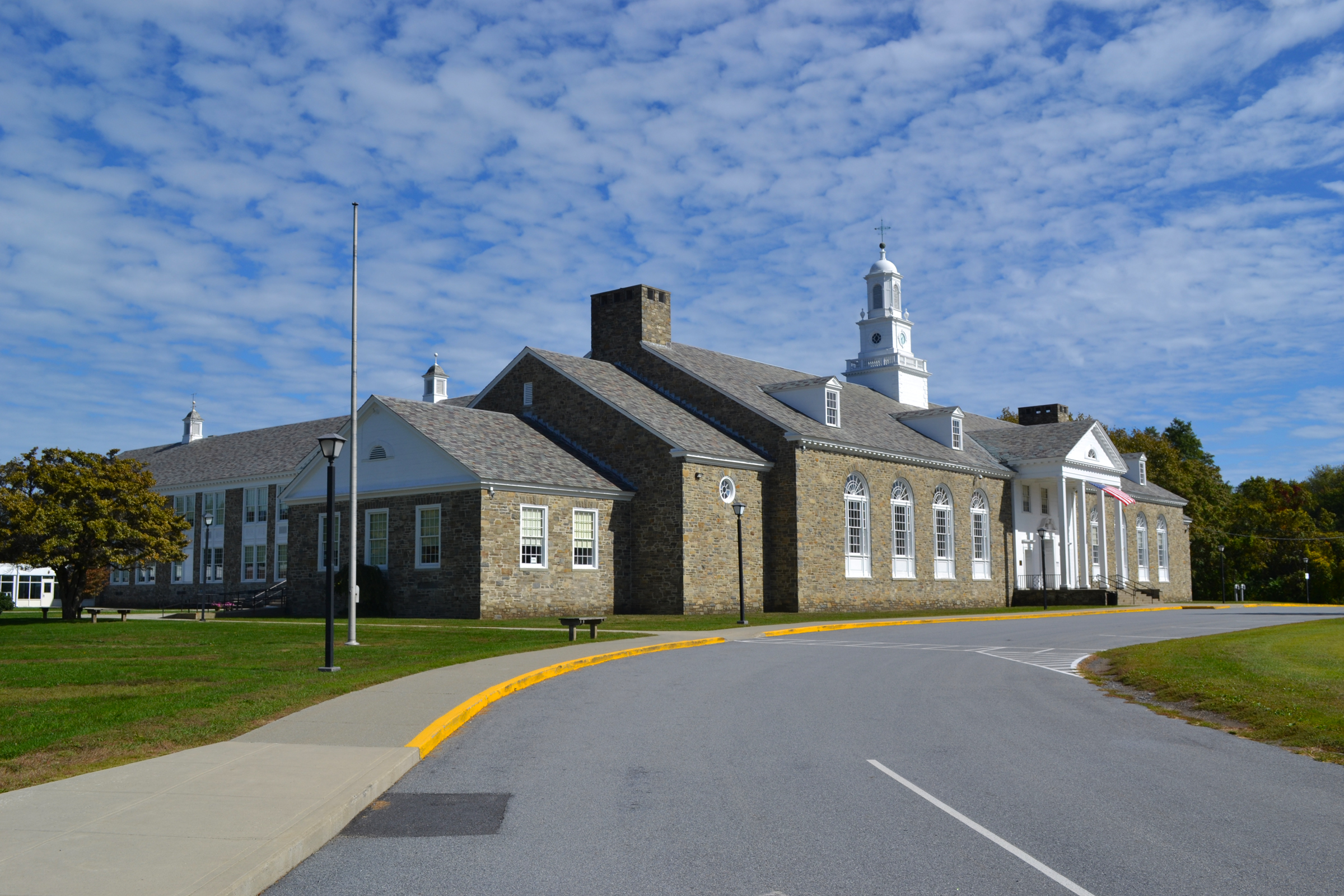 Former Franklin Delano Roosevelt High School, now the Haviland Middle School, in Hyde Park, New York. Western and Southern (front) elevations